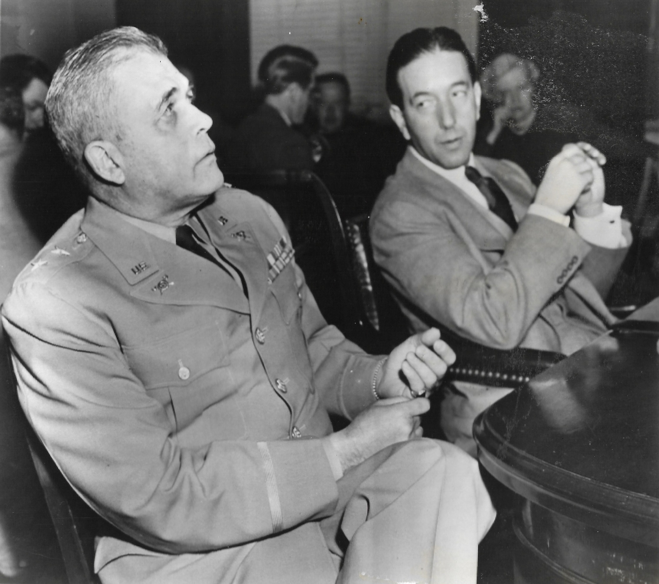 Louis A. Craig was a US Army officer who attained the rank of major general and served as the Army's Inspector General